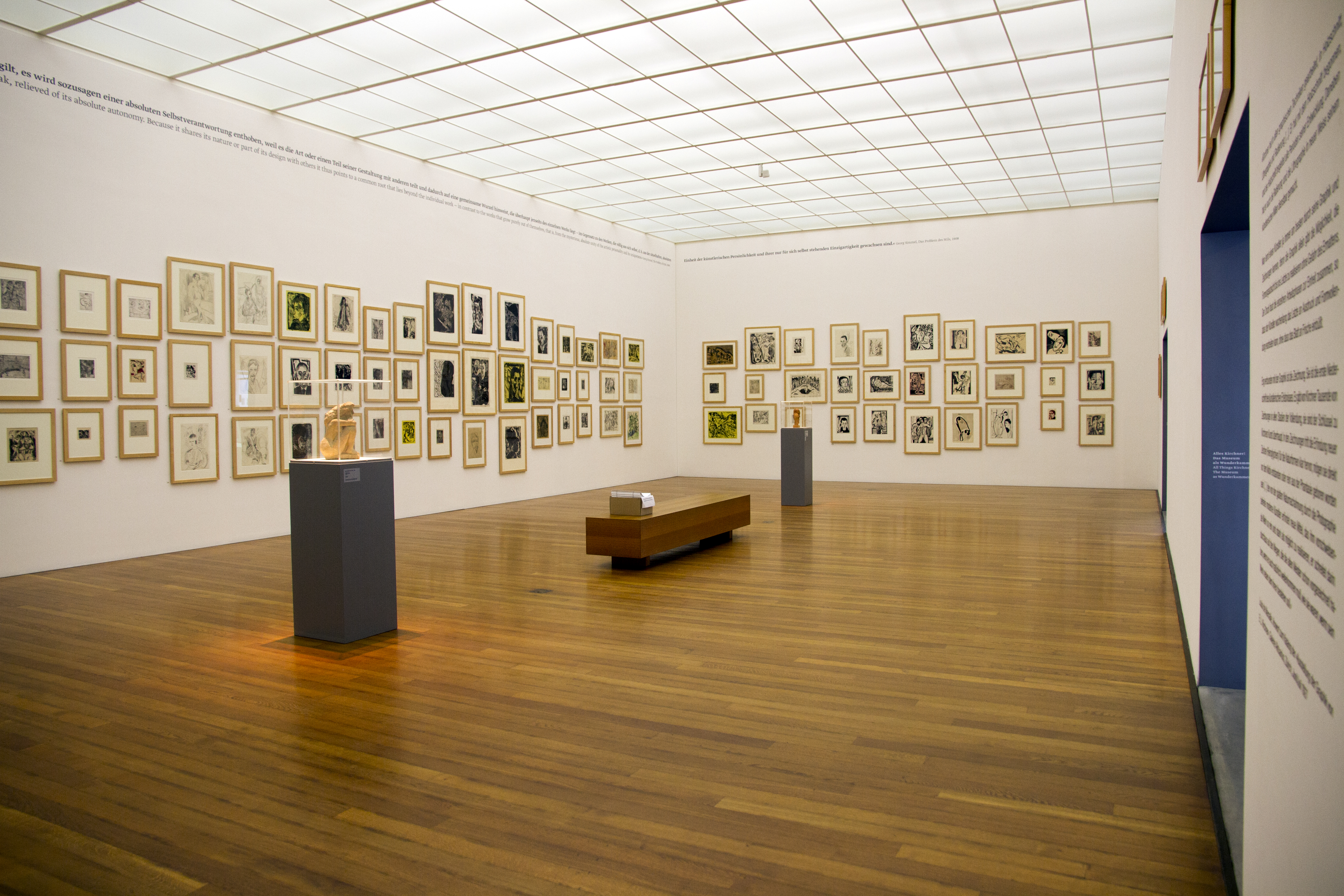 Part of the Ernst Ludwig Kirchner Museum's collection on the work of the artist